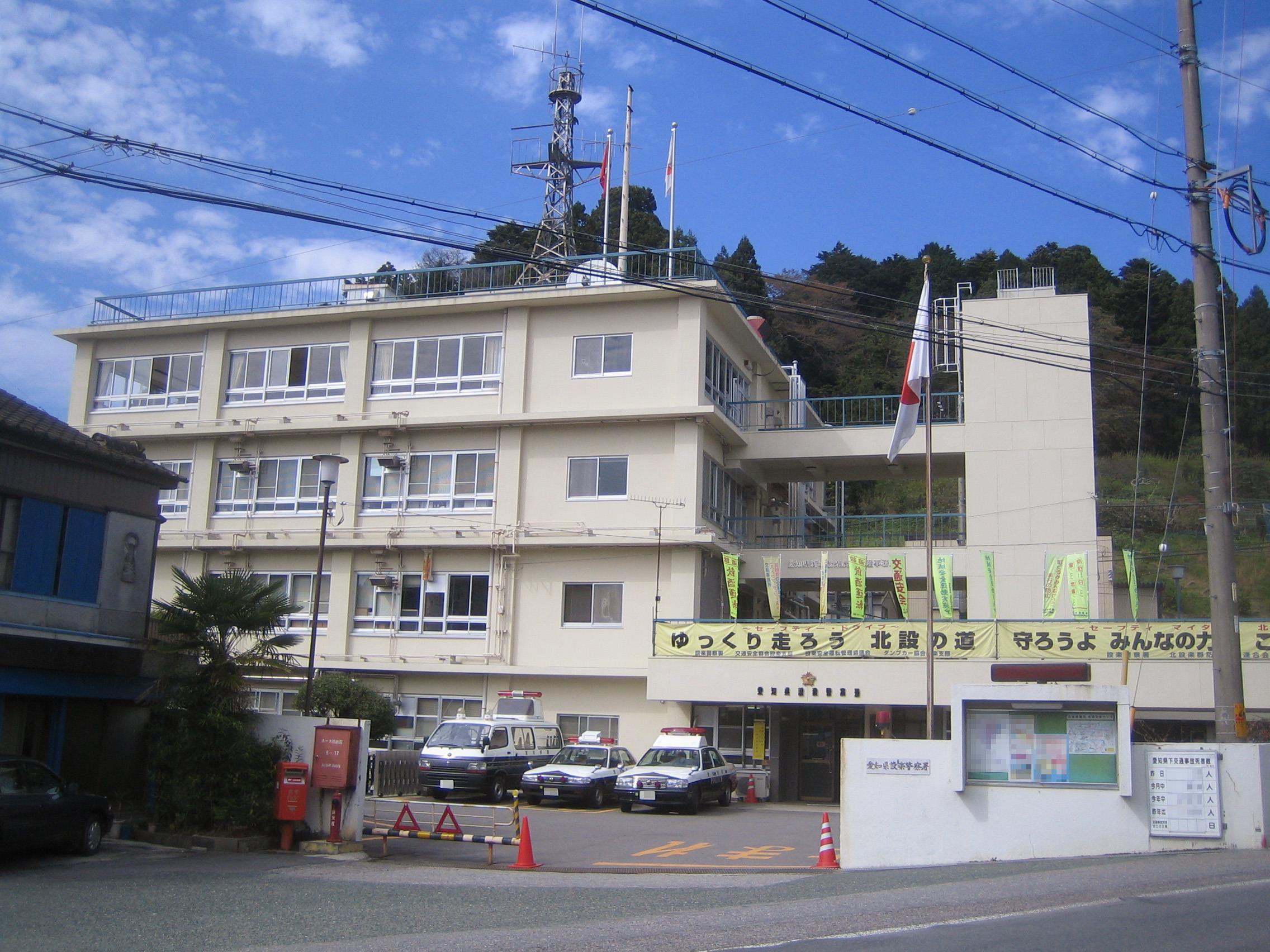 Shitara Police Station (設楽警察署), located in Otowa, Aichi, Japan. Shinshiro-Shitara Agriculture, Forestry and Fisheries Office (新城設楽農林水産事務所) is in the same building.